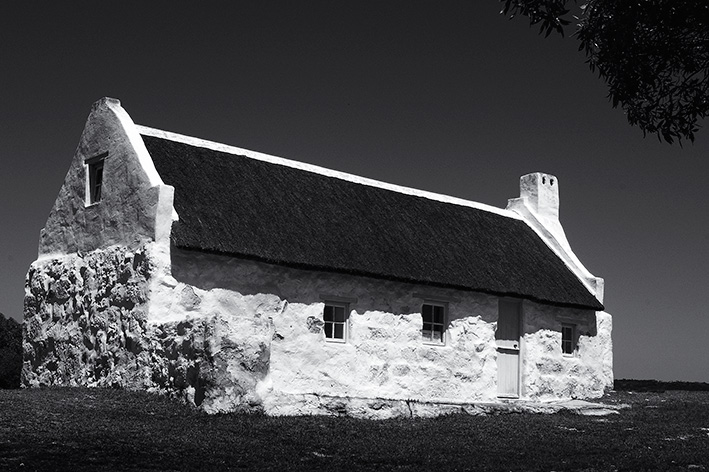 Hotagterklip Struisbaai